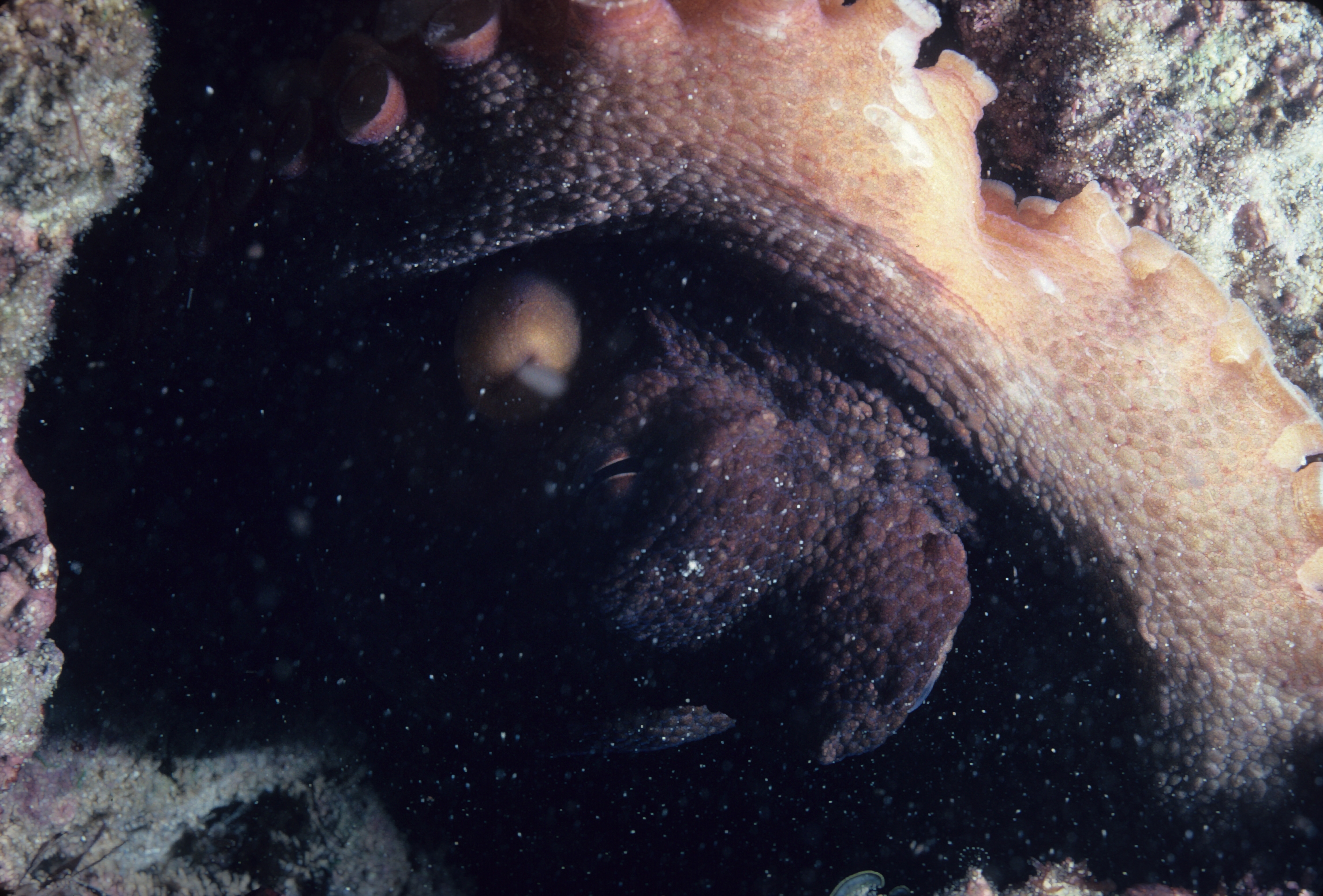 Octopus 13m depth. Australia, Kalbarri (Greenough), W. Australia. 1980 December.